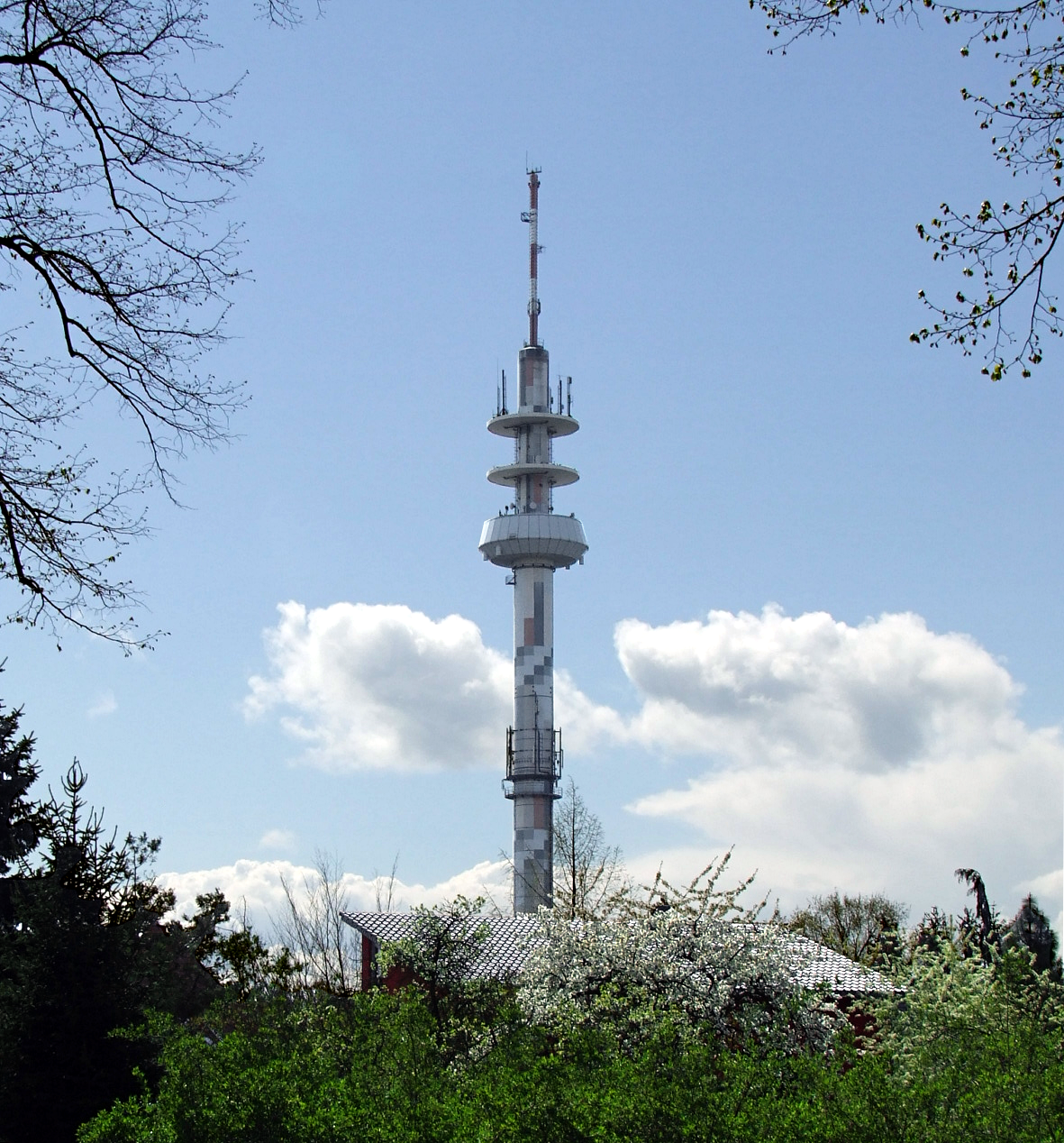 The Cottbus TV tower as seen from Madlower Hauptstraße.